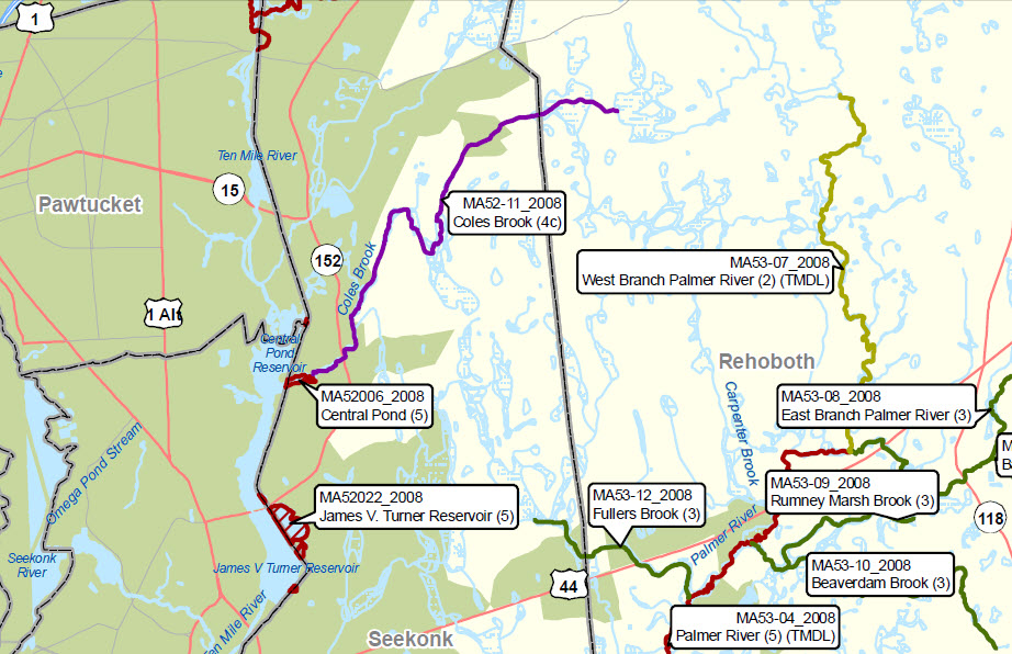 Map of Coles Brook; Rehoboth and Seekonk, Massachusetts, with surrounding area.